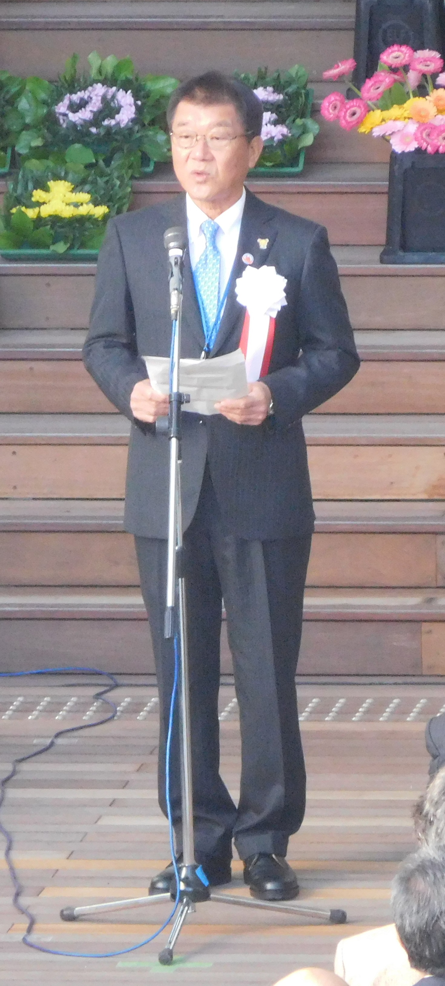 He is NAKAGAWA Kiyoshi, the mayor of Tsuchiura, Ibaraki, Japan. He was making a speech for opening ceremony of ARCUS Tsuchiura.